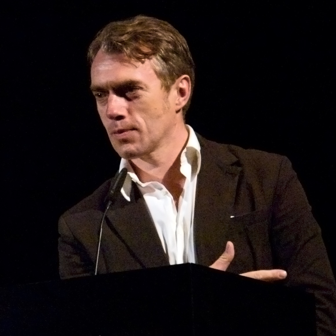 German Painter